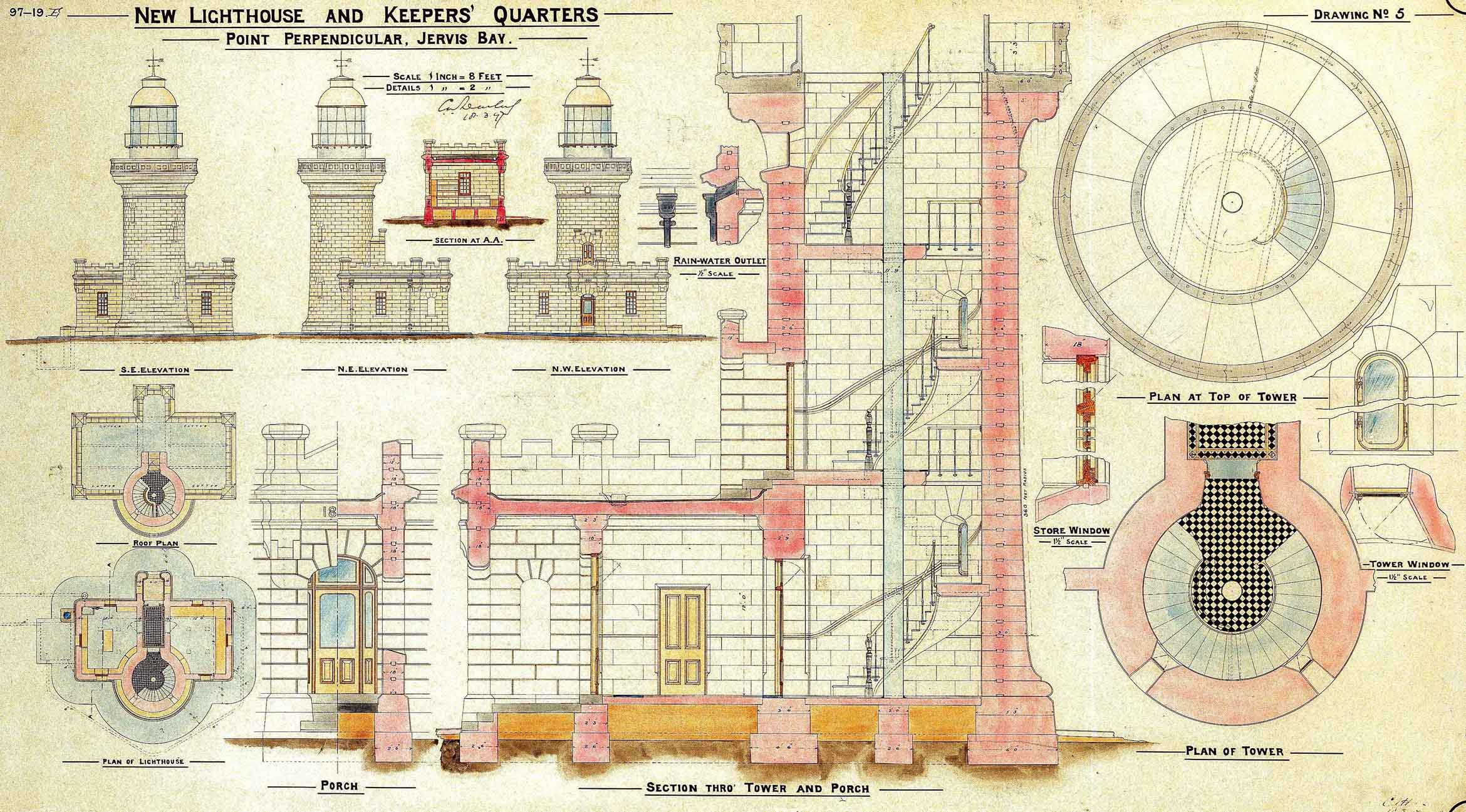 New Lighthouse and Keepers' Quarters Point Perpendicular, Jervis Bay, 1917 Note that signature date is 18.3.1897